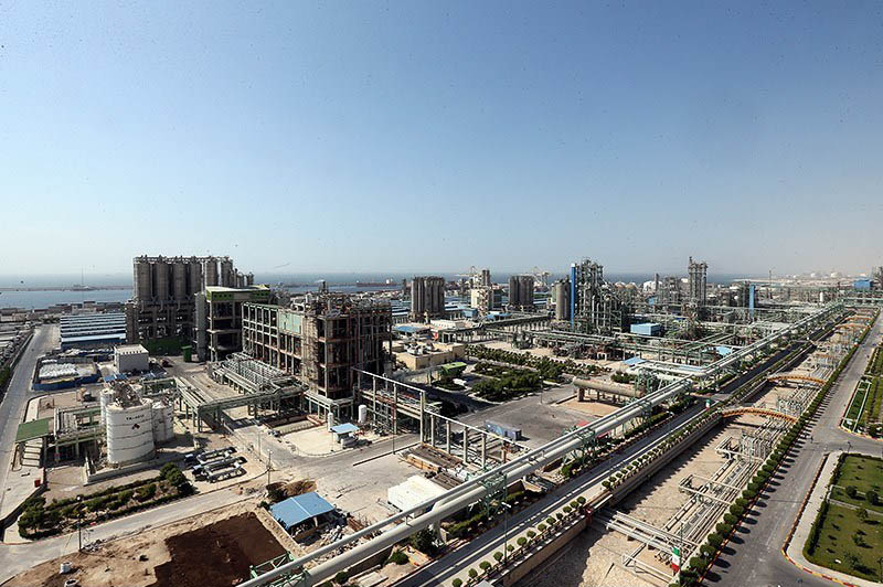 Petrochemical Complexes in PSEEZ, Asaluyeh.